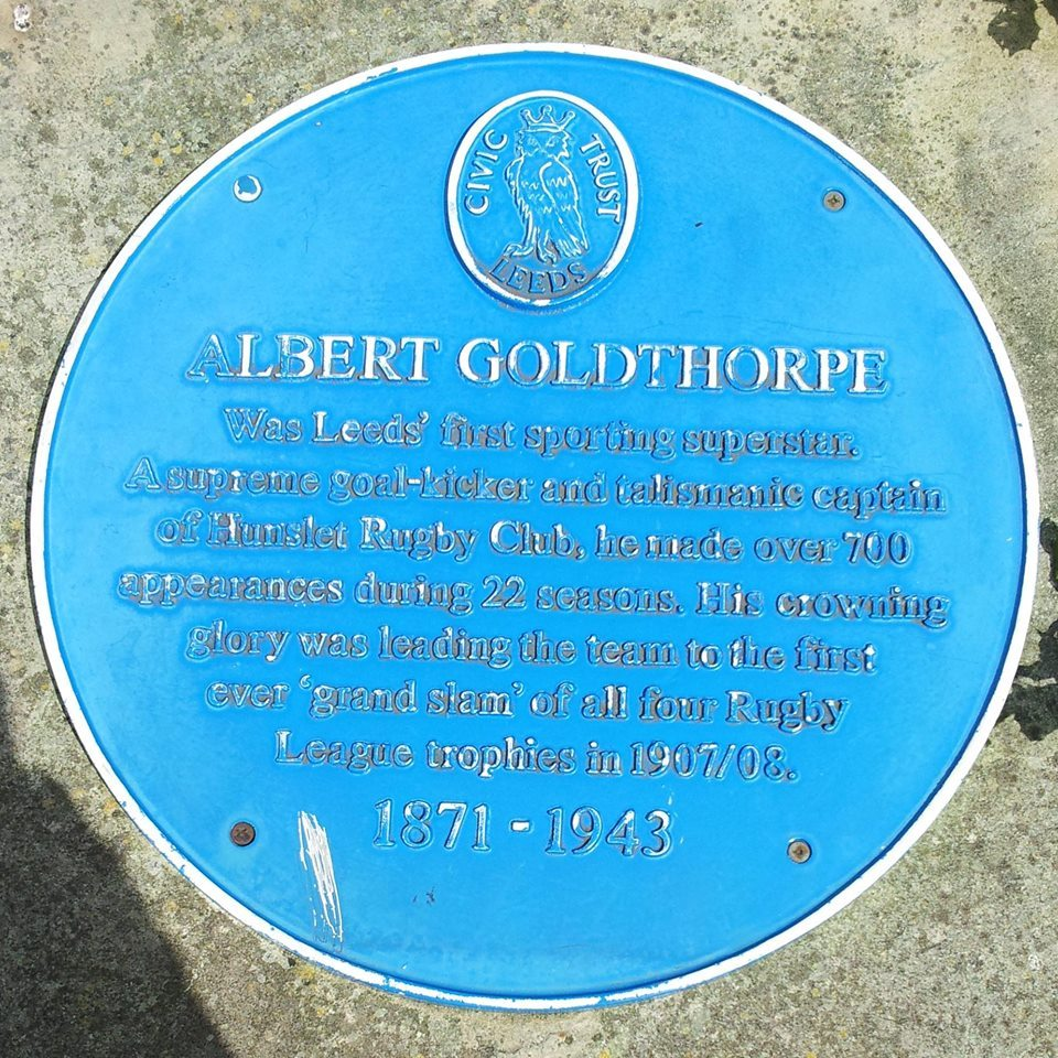 Albert Goldthorpe Blue Plaque